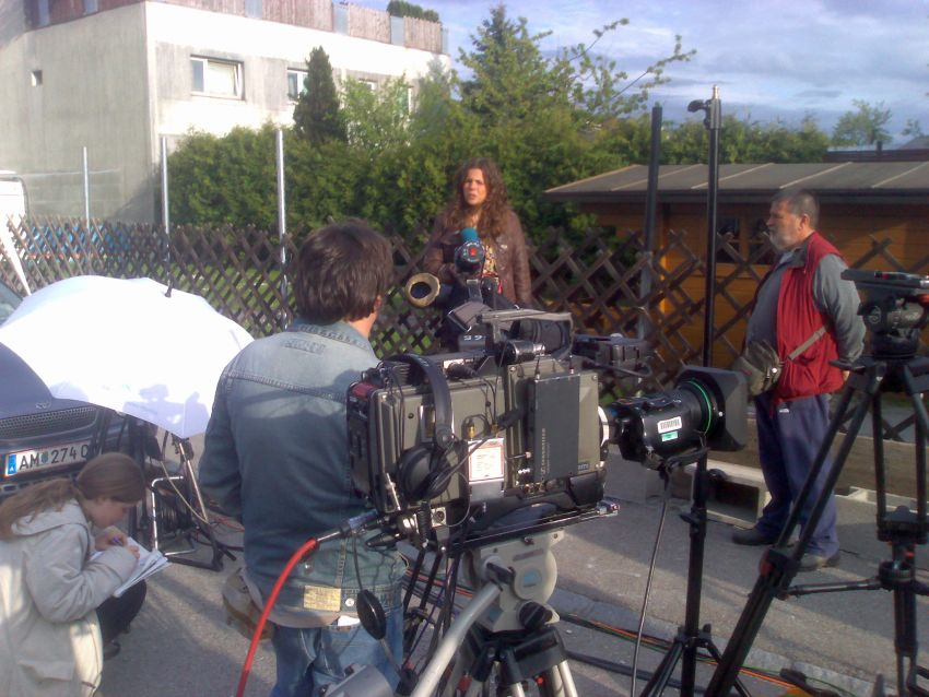 Italian reporter in front of family Fritzl’s home (Ybbsstraße, Amstetten in Austria)